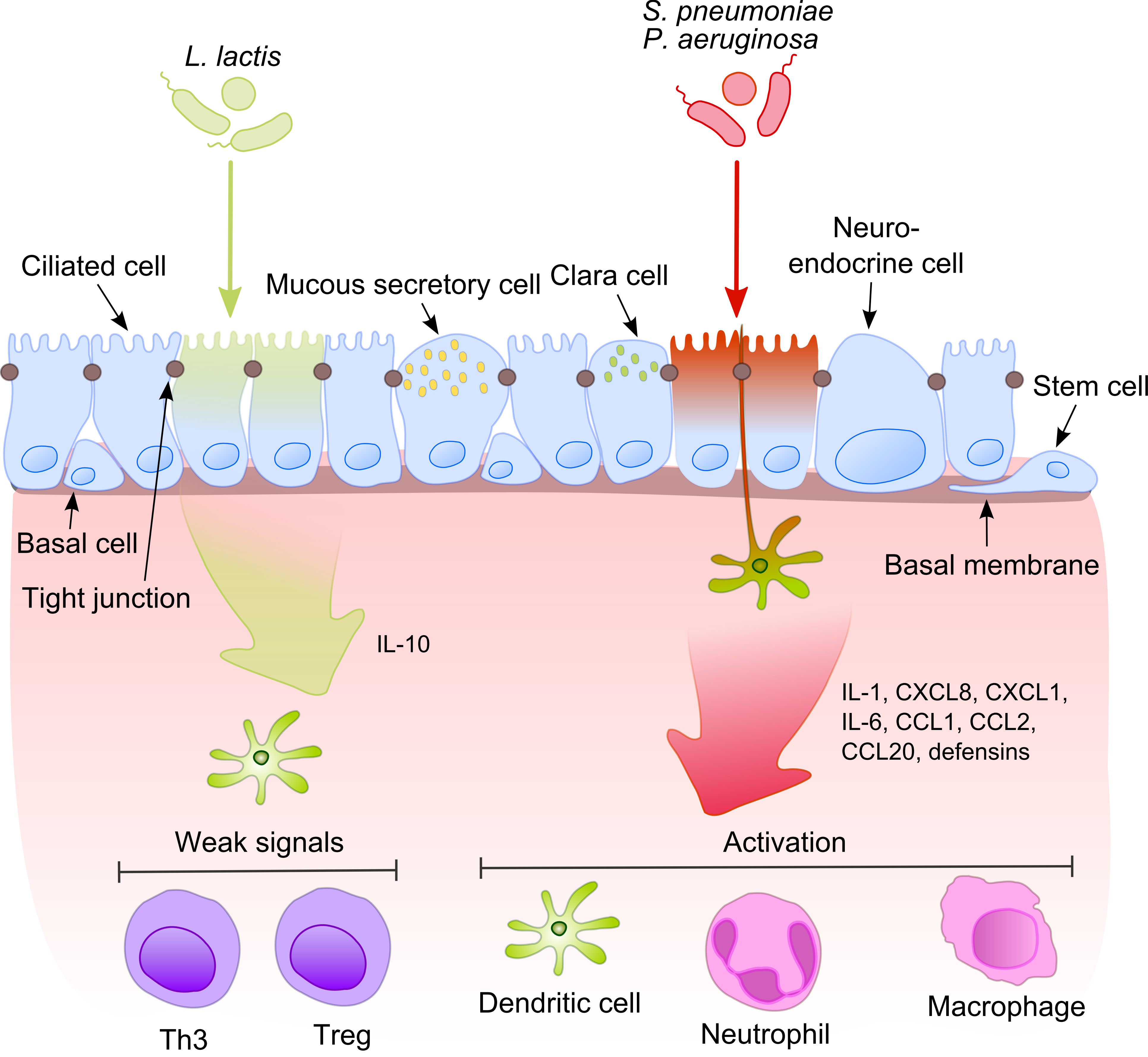 Mechanisms underlaying the inflammation in respiratory tract. Airway epithelium has complex structure: consists of at least seven diverse cell types interacting with each other by means of tight junctions. Moreover, epithelial calls can deliver the signals into the underlying tissues taking part in the mechanisms of innate and adaptive immune defence. The key transmitters of the signals are dendritic cells. Once pathogenic bacterium (e.g., "S. pneumoniae", "P. aeruginosa") has activated particular pattern recognition receptors on/in epithelial cells, the proinflammatory signaling pathways are activated. This results mainly in IL-1, IL-6 and IL-8 production. These cytokines induce the chemotaxis to the site of infection in its target cells (e.g., neutrophils, dendritic cells and macrophages). On the other hand, representatives of standard microbiota cause only weak signaling preventing the inflammation. The mechanism of distinguishing between harmless and harmful bacteria on the molecular as well as on physiological levels is not completely understood.